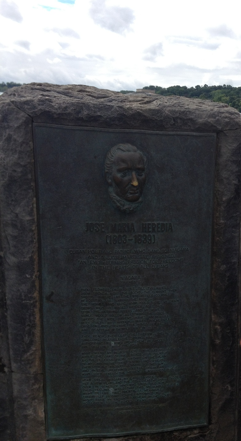 Plaque to Jose Maria Heredia on the Canadian side of Niagara falls.